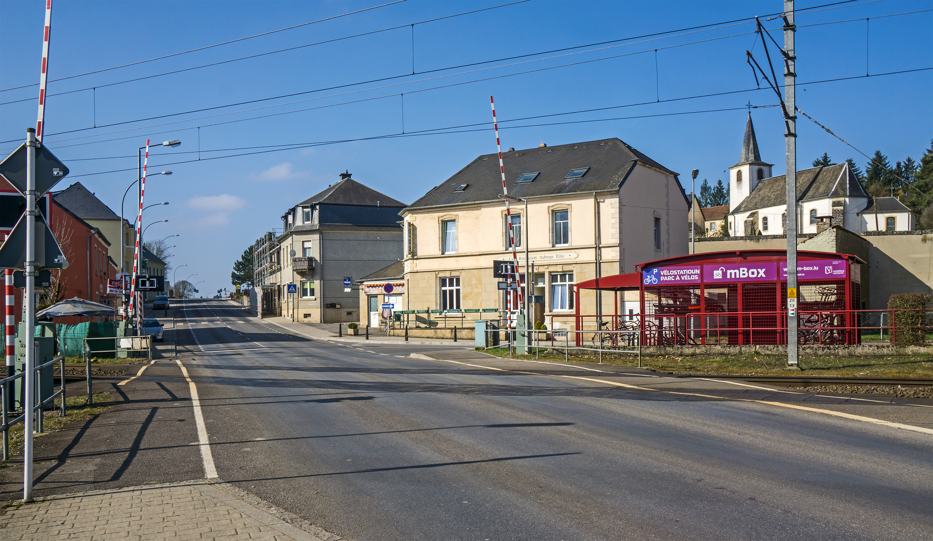 The N1 at the level crossing in Roodth-Syre